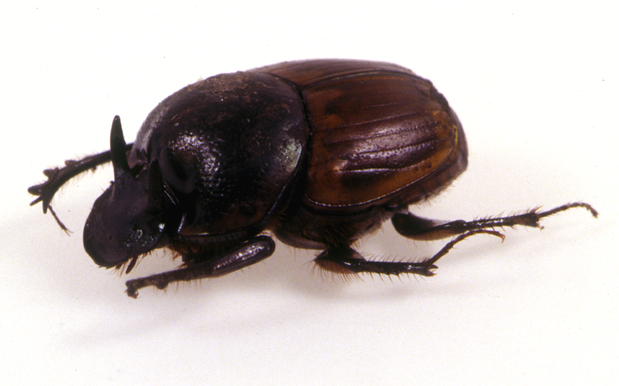 Introduced dung beetle in Australia. Native to Africa. Widespread in northern Australia, and as far south as Victorian border.